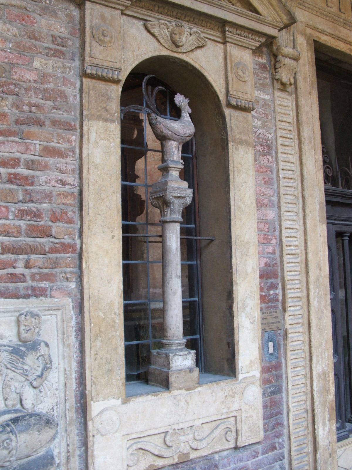 Buildings of Saint Stephen's Basilica in Bologna, Italy, also known as "The Seven Churches". In this picture, the so-called "St. Peter's cock" in the "Pilatus' Courtyard".